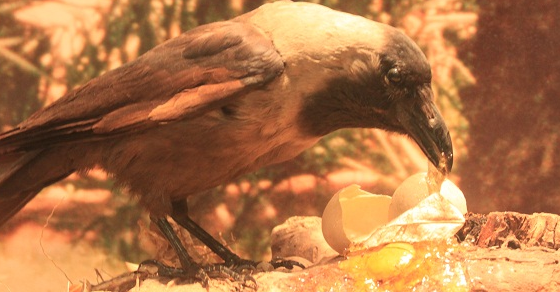 غراب محنط بشكل متكامل